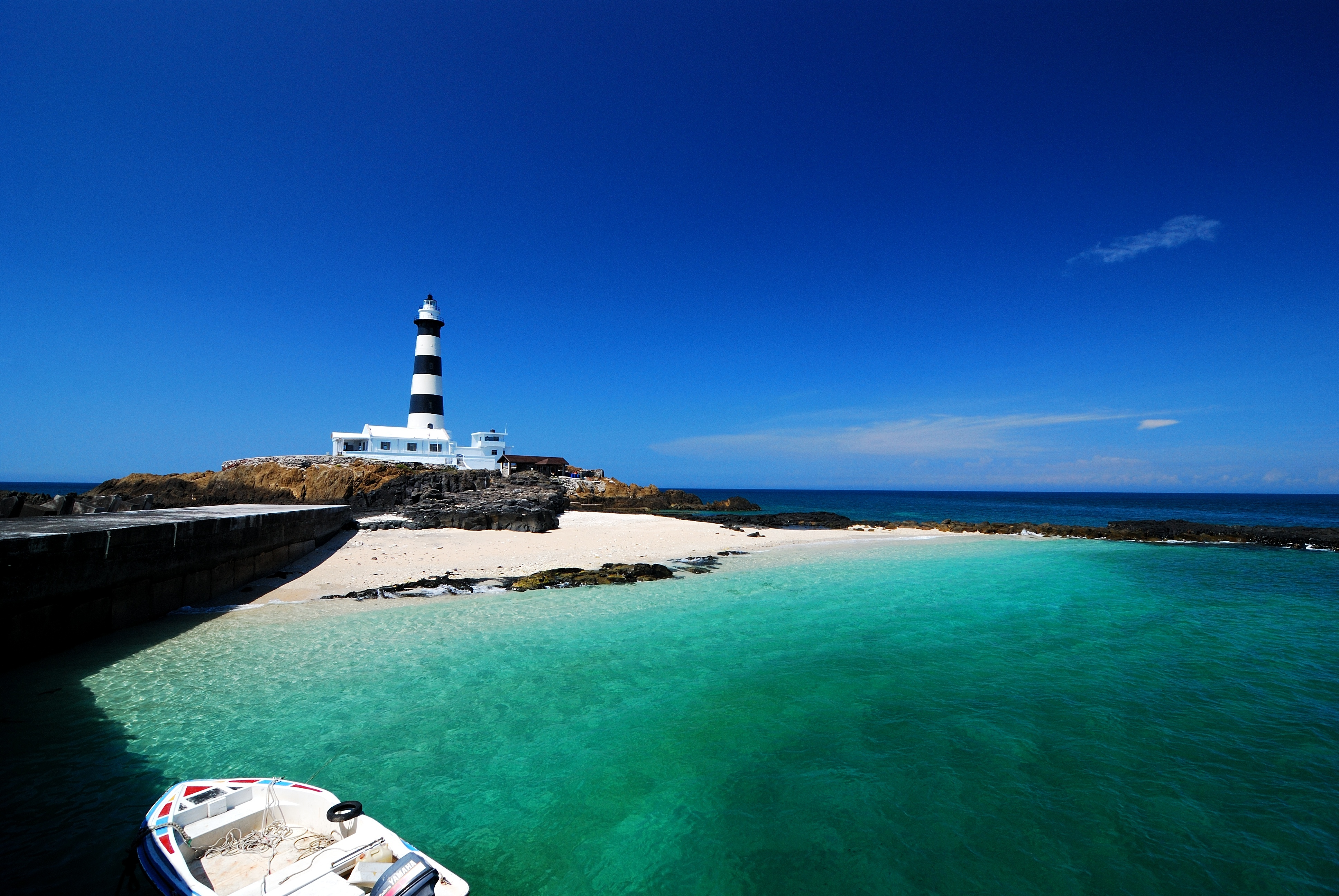 Mudouyu Lighthouse.